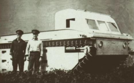 Marine Sergeant Clarence H. Raper (right) and Corporal Walter L. Gibson pose beside the first amphibian tractor procured by the Marine Corps. It was tested extensively in 1940 under the direction of then Captain Victor H. Krulak, the later author of First to Fight: An Inside View of the U.S. Marine Corps and the father of Charles C. Krulak, the 31st Commandant of the Marine Corps.